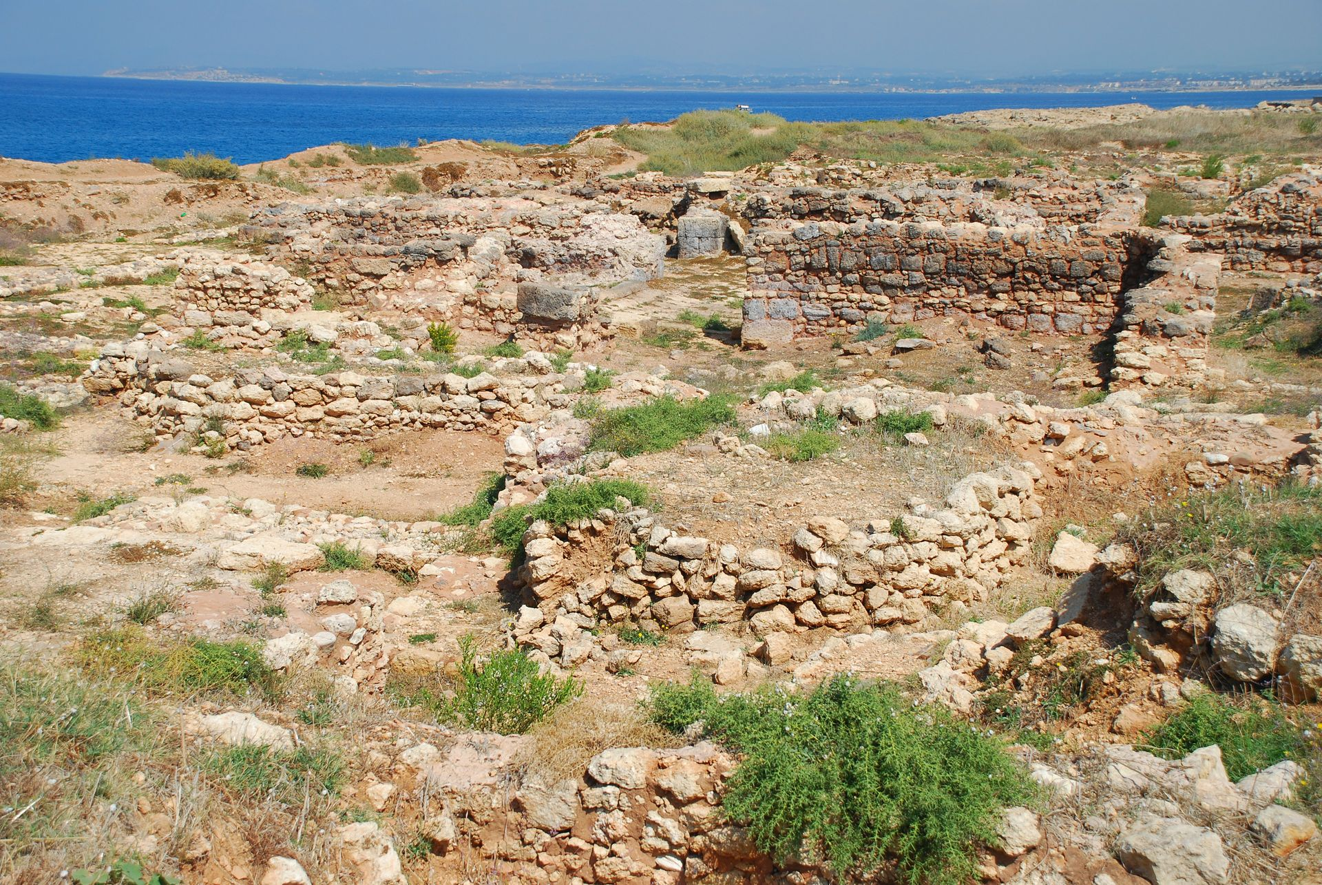 Ras Ibn Hani near Ugarit, Syria. Nort palace west side